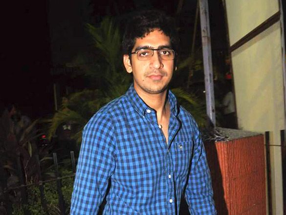 Ayan mukherji